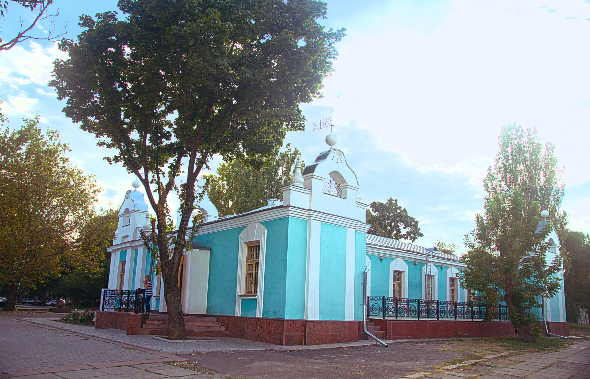 Mykolayiv chess club